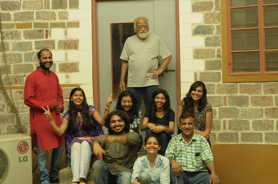 Hands on Sustainable Architecture Workshops at ASHRA